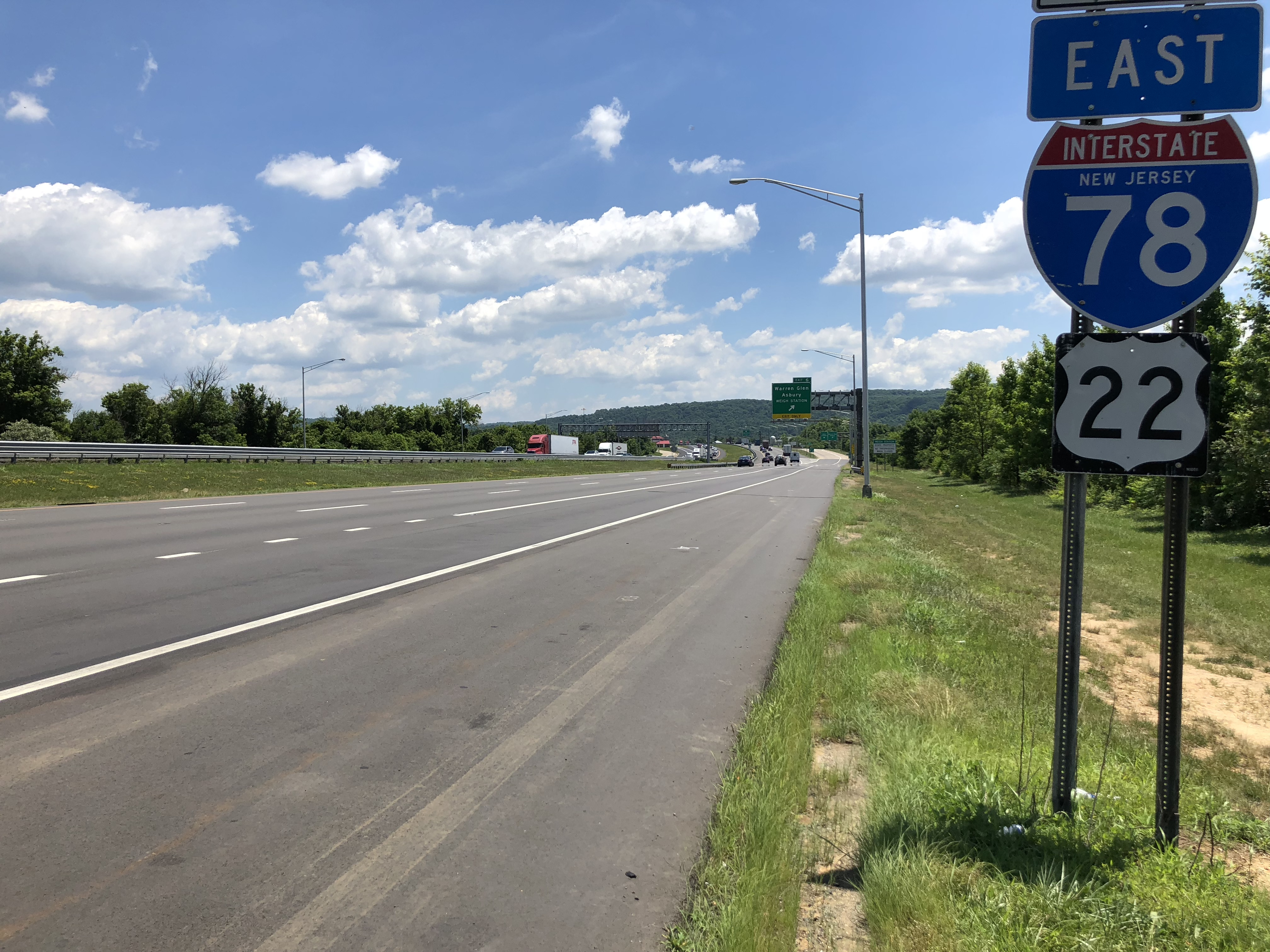 View east along Interstate 78 and U.S. Route 22 (Phillipsburg-Newark Expressway) just west of Exit 6 in Greenwich Township, Warren County, New Jersey